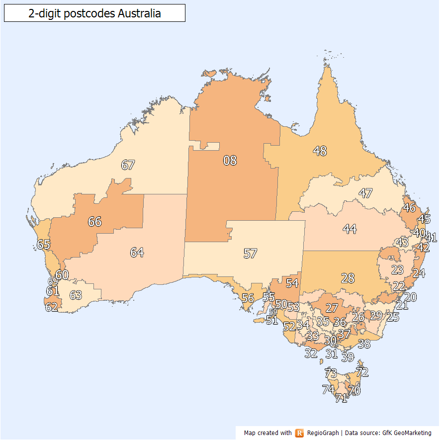 2-digit postcodes Australia: postcode areas, described through the first two digits of the Australian postcode system